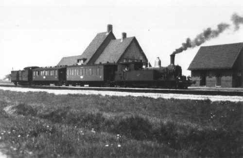 Station Harkstede-Scharmer